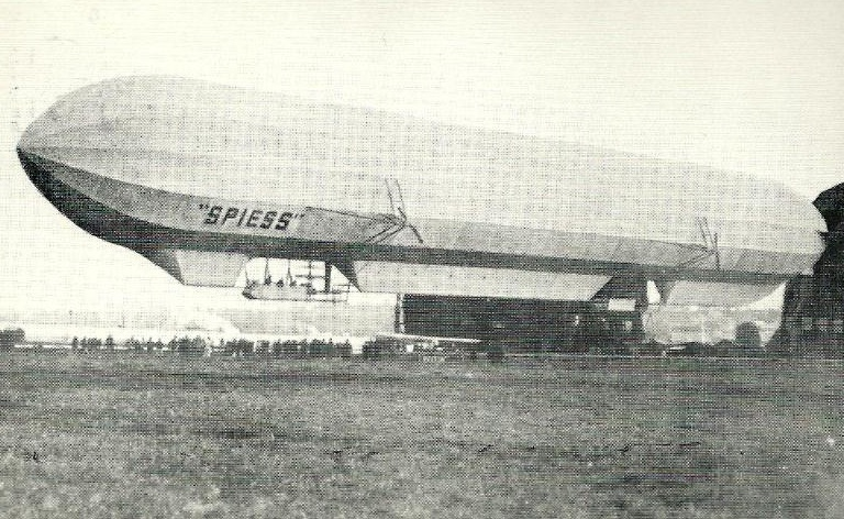 Zodiac XII "SPEISS": The first and only rigid airship built in France, designed by engineer Joseph Spiess (1838 - 1917)